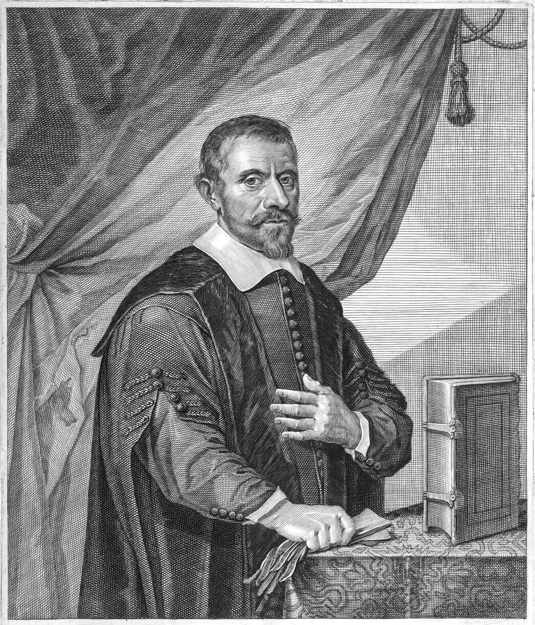 Carel de Maets engraving 26.3 x 22.4 cm 1659 after Hendrick Bloemaert